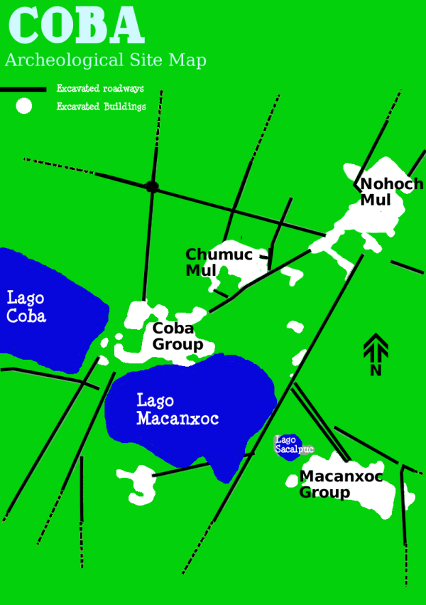 Map of Coba excavation site, Quintana Roo, Mexico. I made this, using the Gimp and several photograph and map sources were referenced.